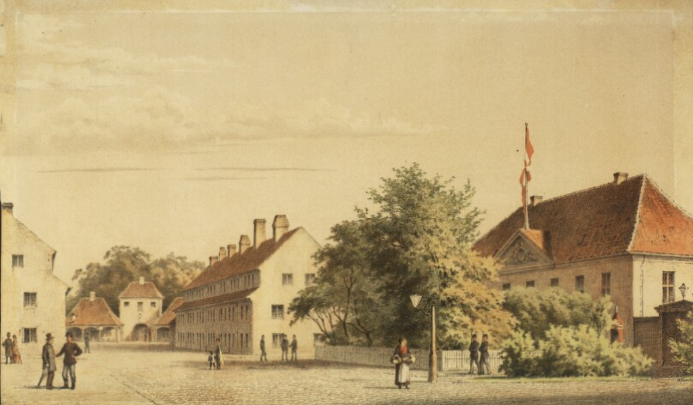 Hovedgaden i Kastellet. Kommandantgården til højre